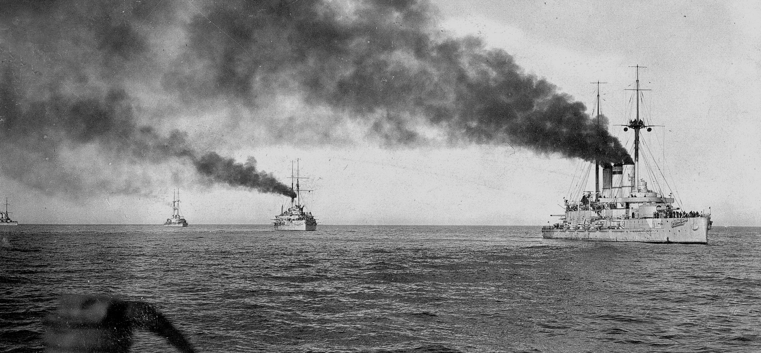 Imperial Russian battleships in the Black Sea during The Great War led by battleship Ioann Zlatoust.